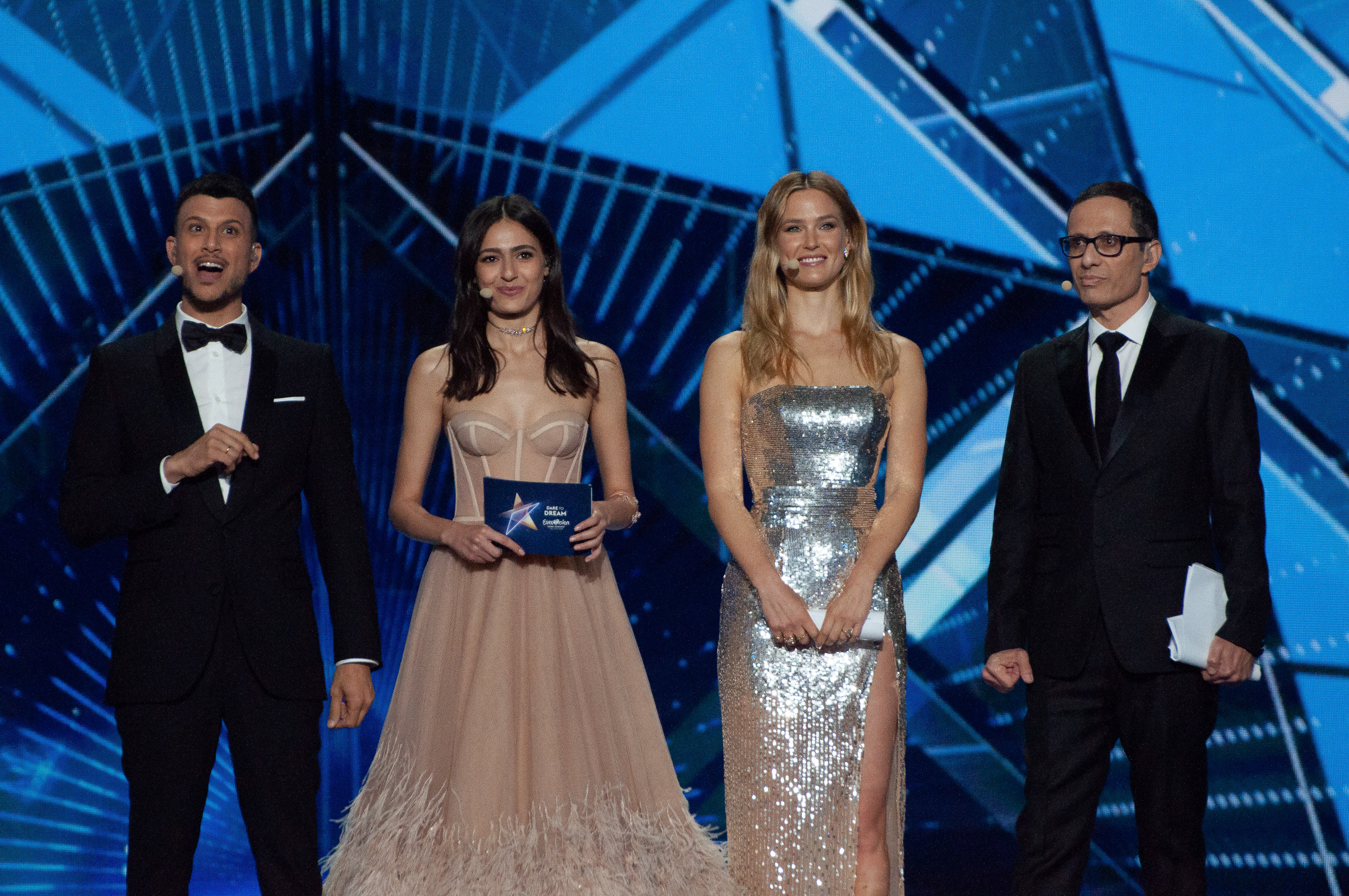 Presenters at the 2019 Eurovision Song Contest Grand Final Dress Rehearsal